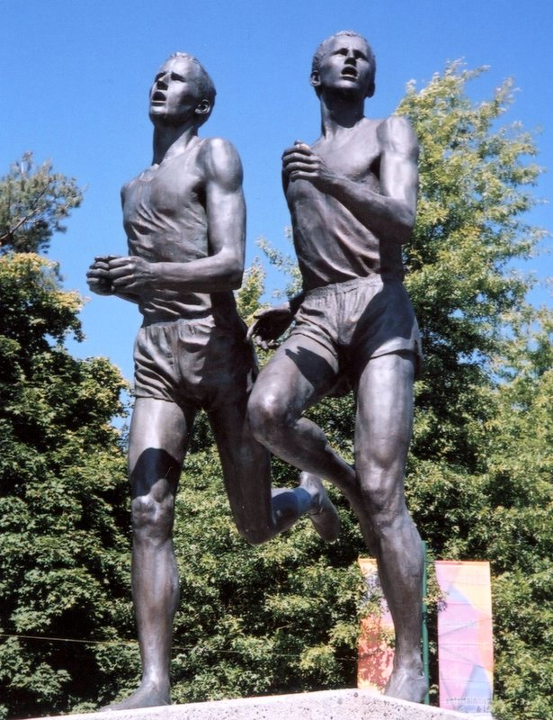 Statue in Vancouver, British Columbia of John Landy of Australia and Roger Bannister of England. On 7 August, at the 1954 British Empire and Commonwealth Games in Vancouver, Bannister competed against Landy for the first time in a race billed as "The Miracle Mile". They were the only two men in the world to have broken the 4-minute barrier, with Landy still holding the world record. Landy looked over his left shoulder to gauge Bannister's position and Bannister burst past him on the right; Bannister won in 3 min 58.8 s, with Landy 0.8 s behind in 3 min 59.6 s. A larger-than-life bronze sculpture of the two men at this moment was created by Vancouver sculptor Jack Harman in 1967 from a photograph by Vancouver Sun photographer Charlie Warner and stood for many years at the entrance to Empire Stadium; after the stadium was demolished the sculpture was moved a short distance away to the Hastings and Renfrew entrance of the Pacific National Exhibition (PNE) fairgrounds. Regarding this sculpture, Landy quipped that "While Lot's wife was turned into a pillar of salt for looking back, I am probably the only one ever turned into bronze for looking back."